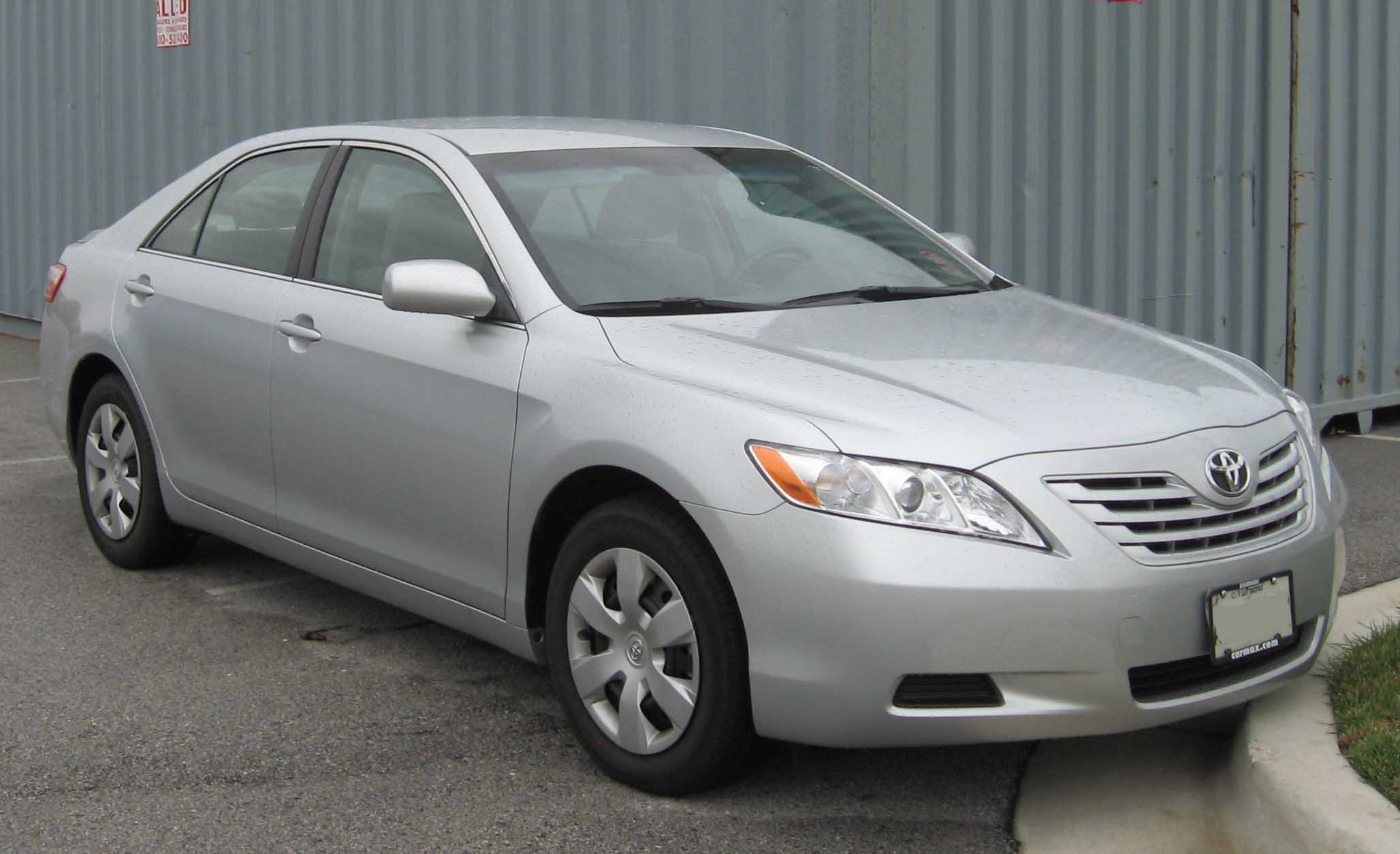 2007 Toyota Camry photographed in College Park, Maryland, USA.